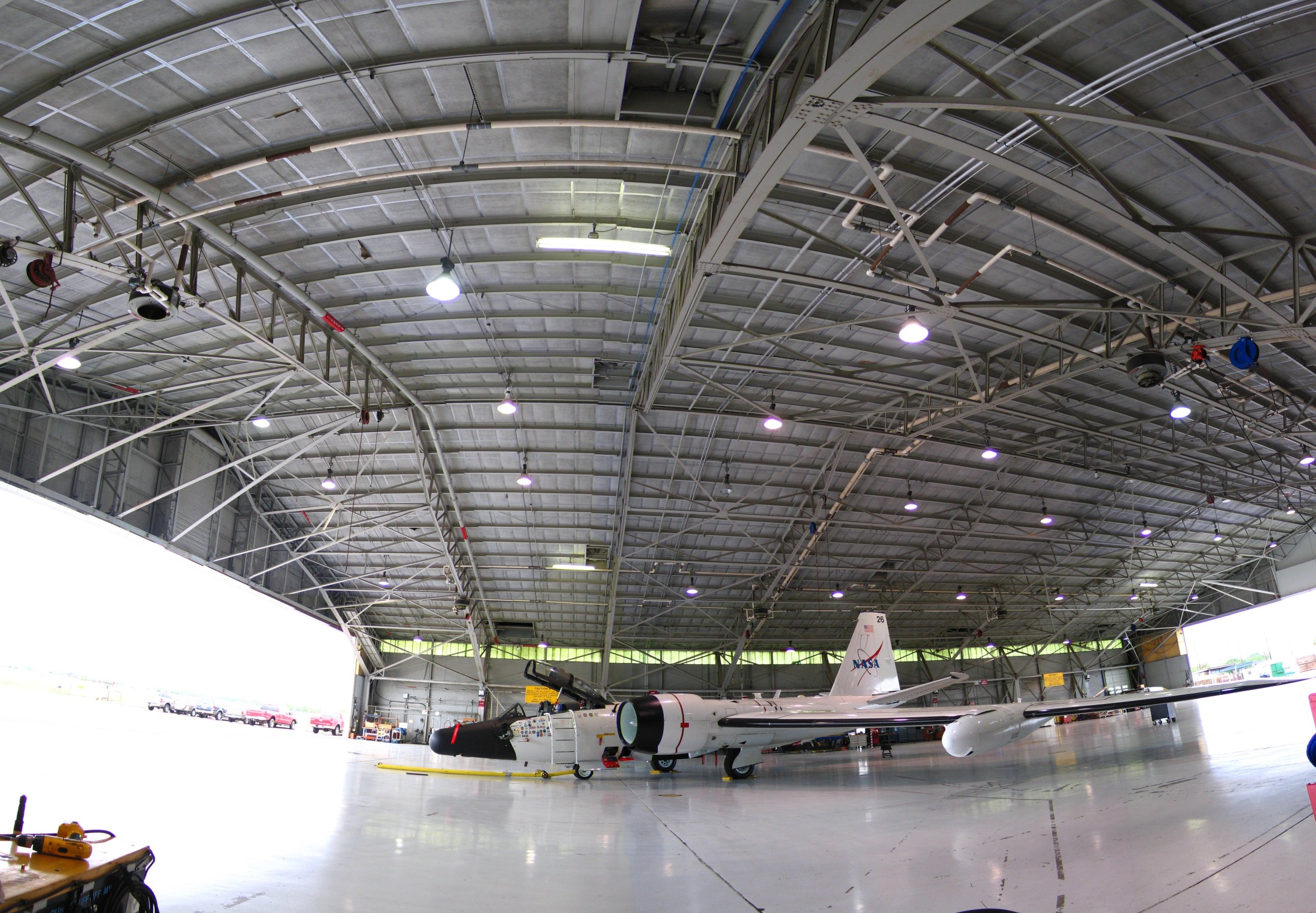 Panorama of Ellington field's hangar 990, with one of the two WB-57Fs inside (NASA 926). Aircraft was originally manufactured as an RB-57D, USAF Serial 53-3974. Later rebuilt in 1963 as an RB-57F 63-13503. later carried civil registrations N357AR and then N926NA. Retired to AMARC in 1996 prior to NASA service.